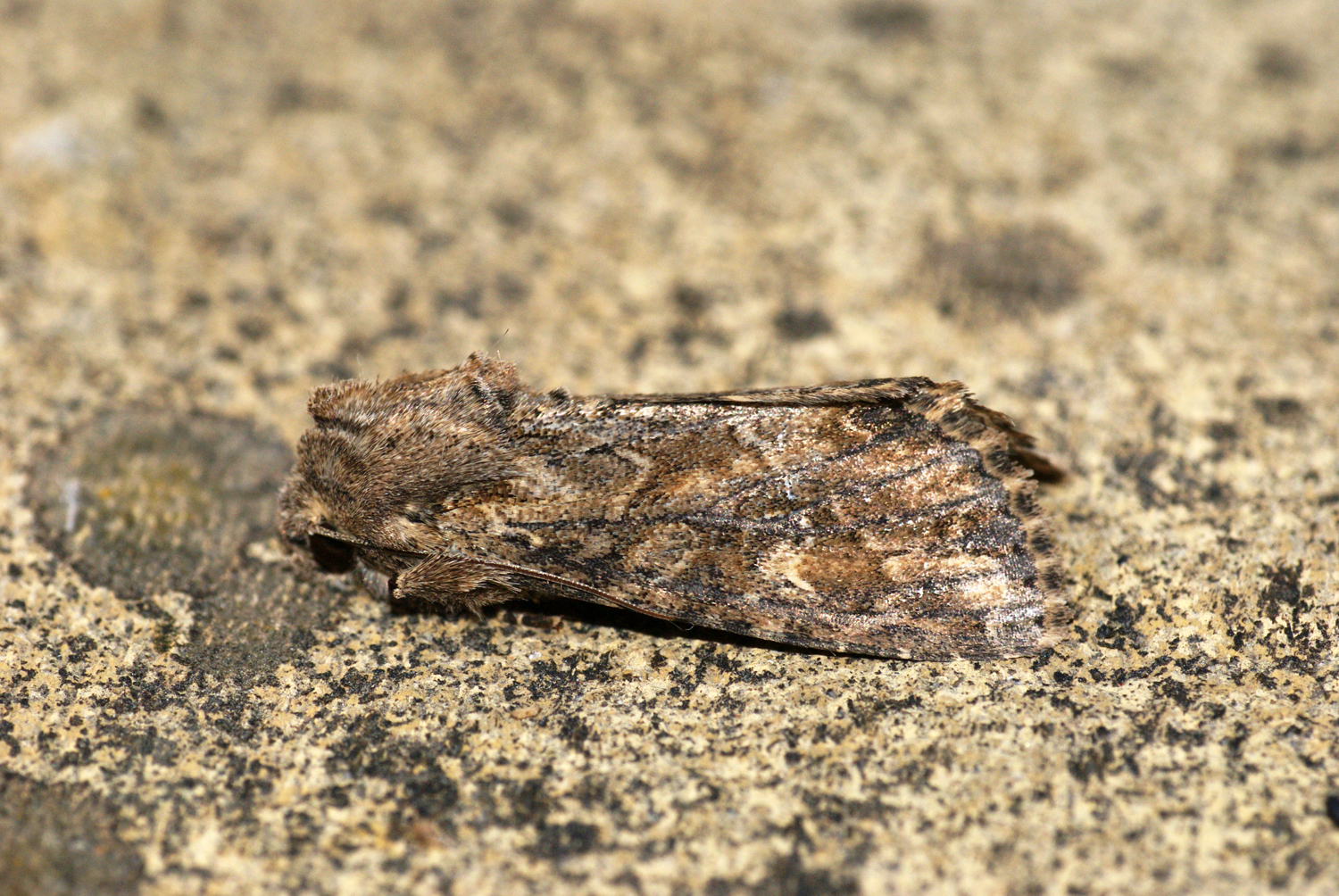 [2250] Dark Brocade (Blepharita adusta)